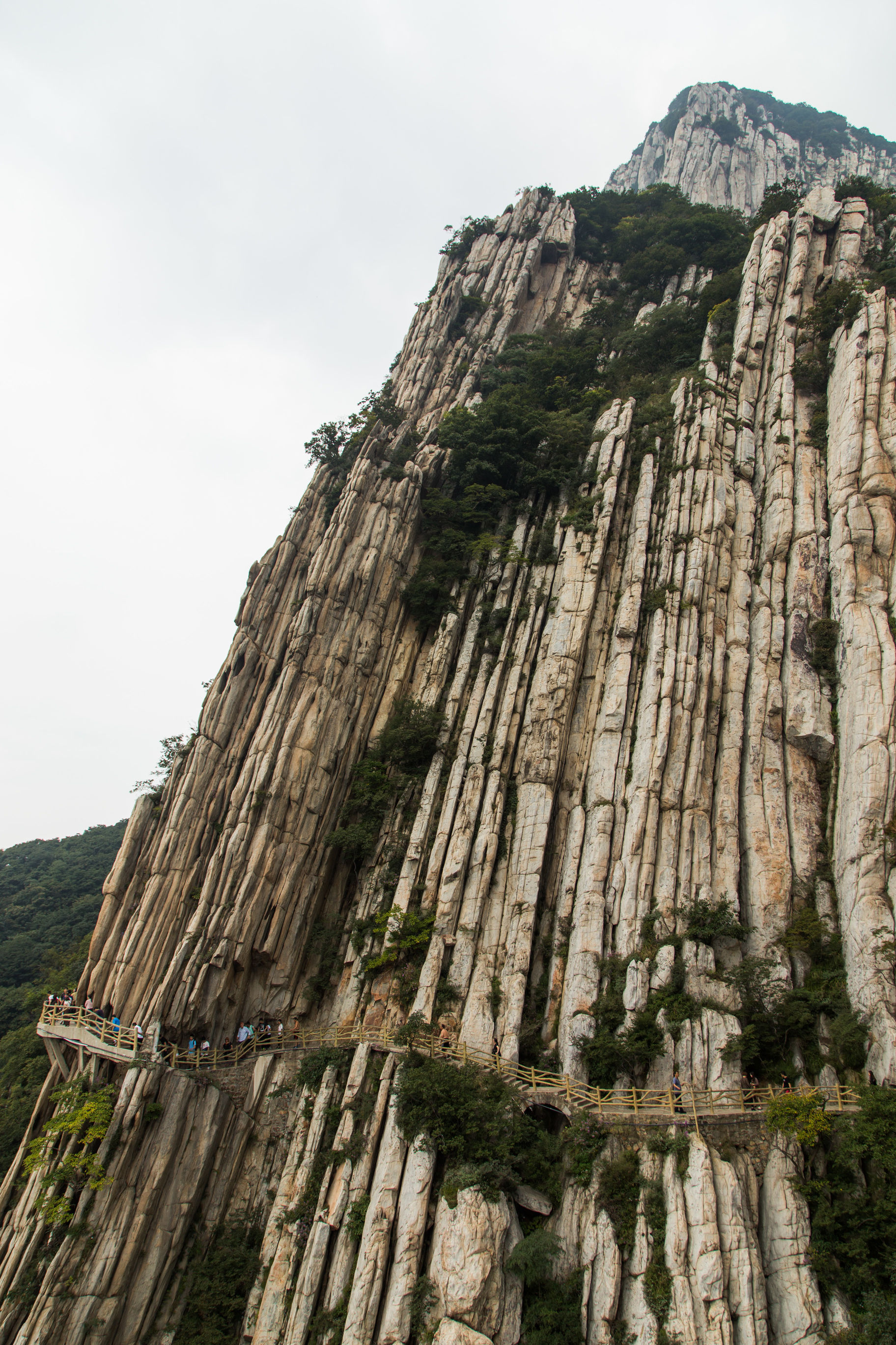 Shuce Cliff, a landmark of Mount Song, Henan, China. "Shuce" literally means "books" in Chinese. The upright fold was formed approximately 1.8 billion yeas ago by an intense orogeny - Zhongyue Movement.